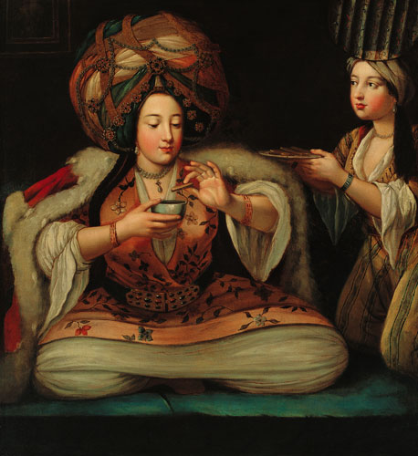 Enjoying Coffee; oil on canvas, 112 x 101.5 cm.